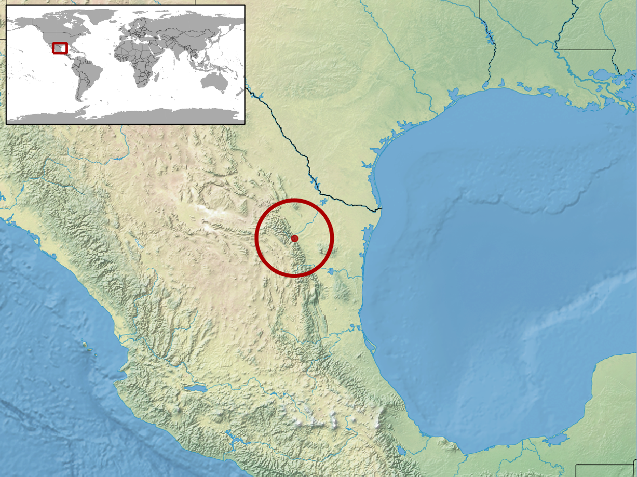 geographic distribution of Gerrhonotus parvus (Native: Mexico)